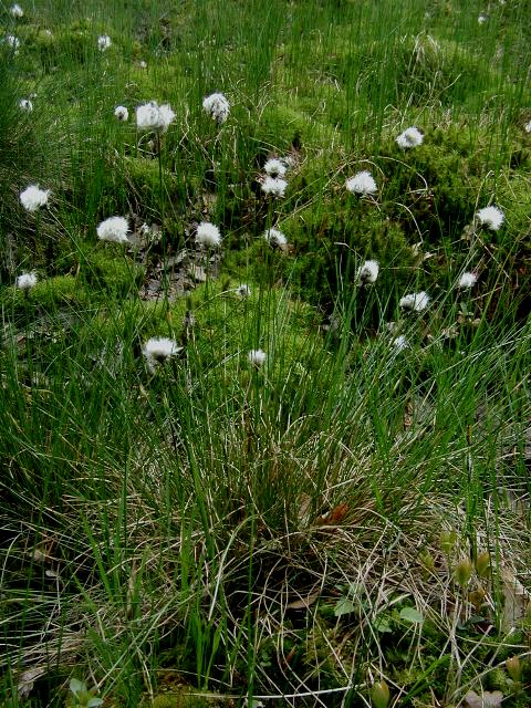 Eriophorum vaginatum: Woollen heads at a moor in Sweden.